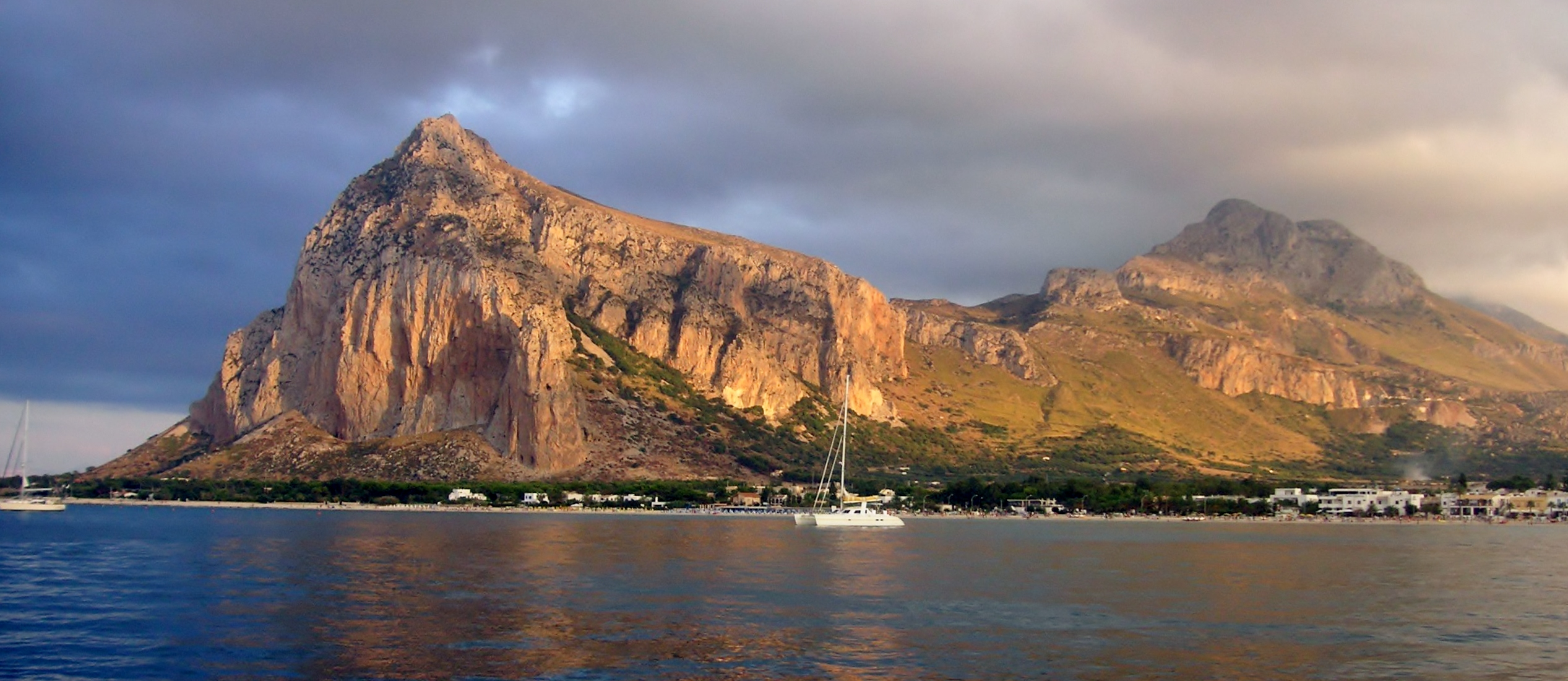 View from enter to San Vito La Capo marina, showing coast of city and mountains behind of it. San Vito Lo Capo, Sicily, Italy